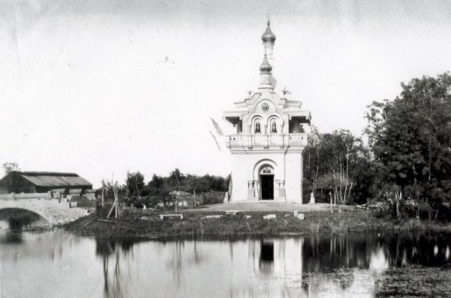 Saint Petersburg (Russia), Strelna, Coastal Monastery of St. Sergius